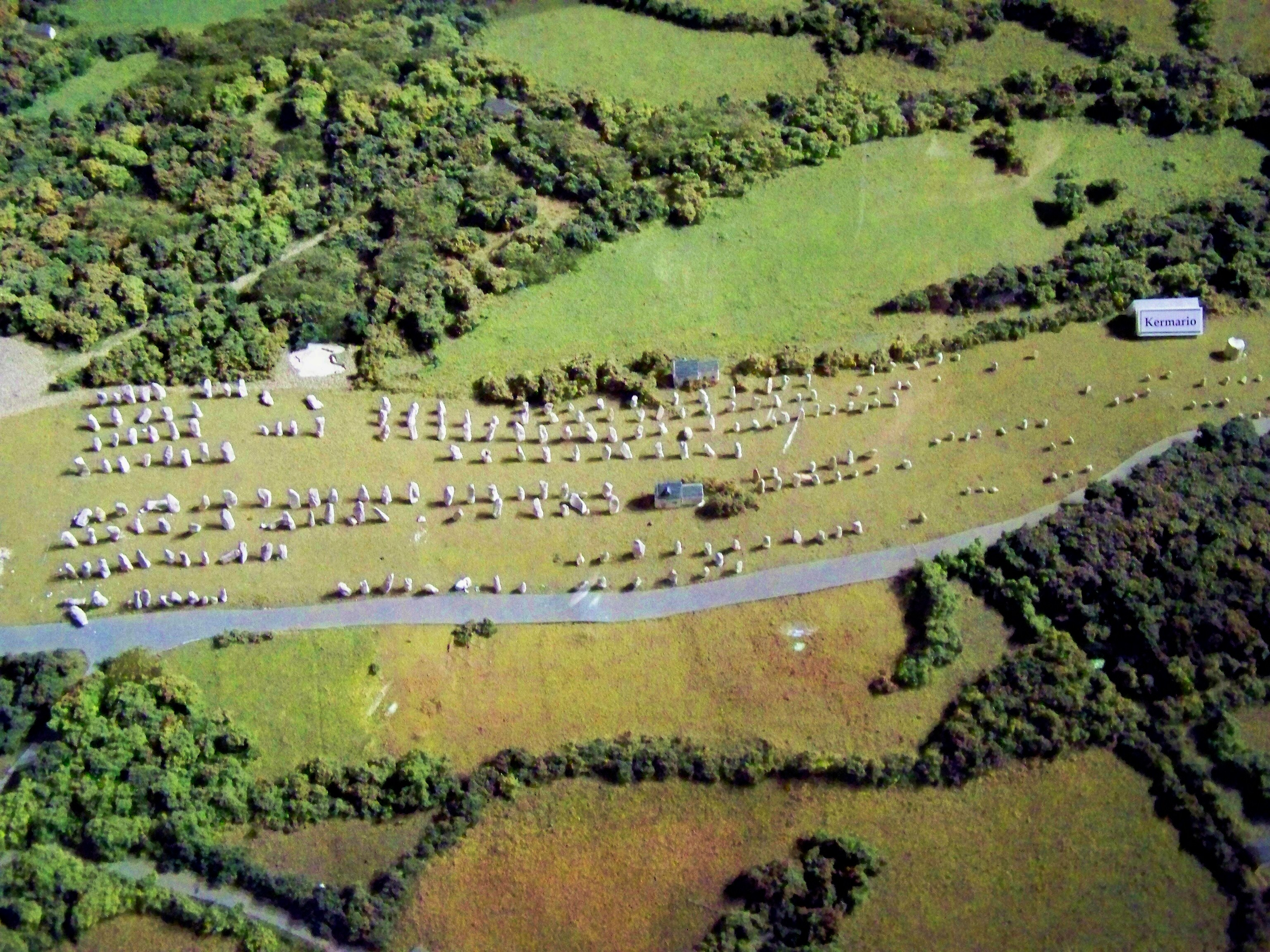 Kermario (House of the Dead) alignment, Carnac, France